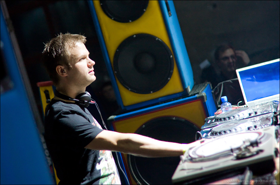 Dash Berlin at the Armada Night in Moscow